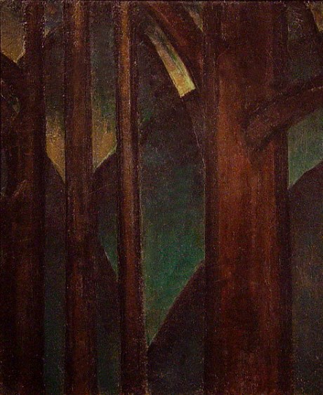 Title: Dark Abstraction